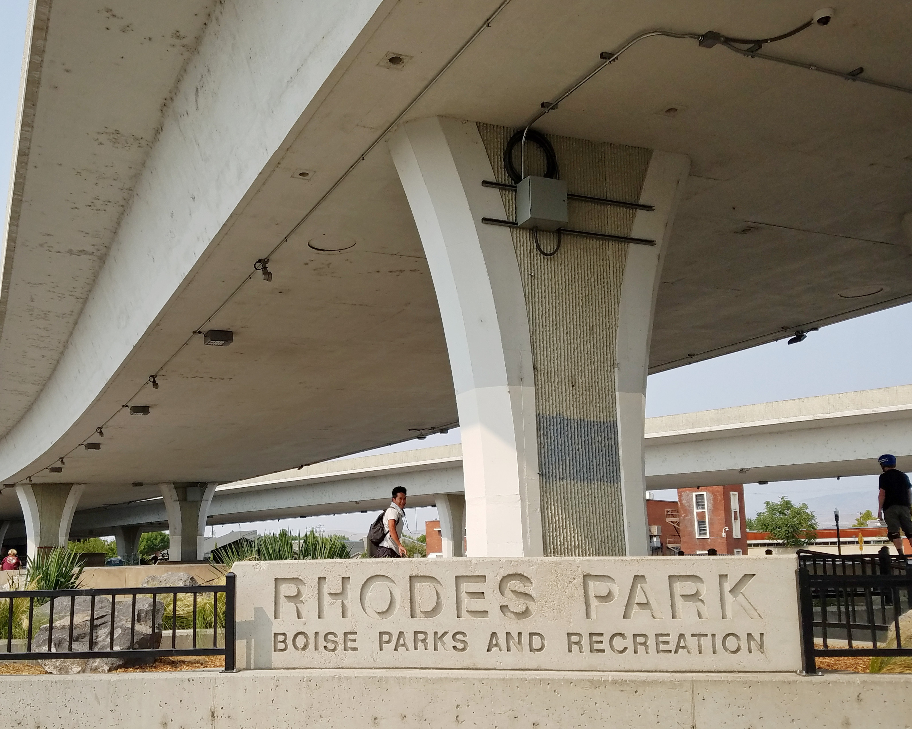 Rhodes Skate Park in Boise, Idaho, under Interstate 184.